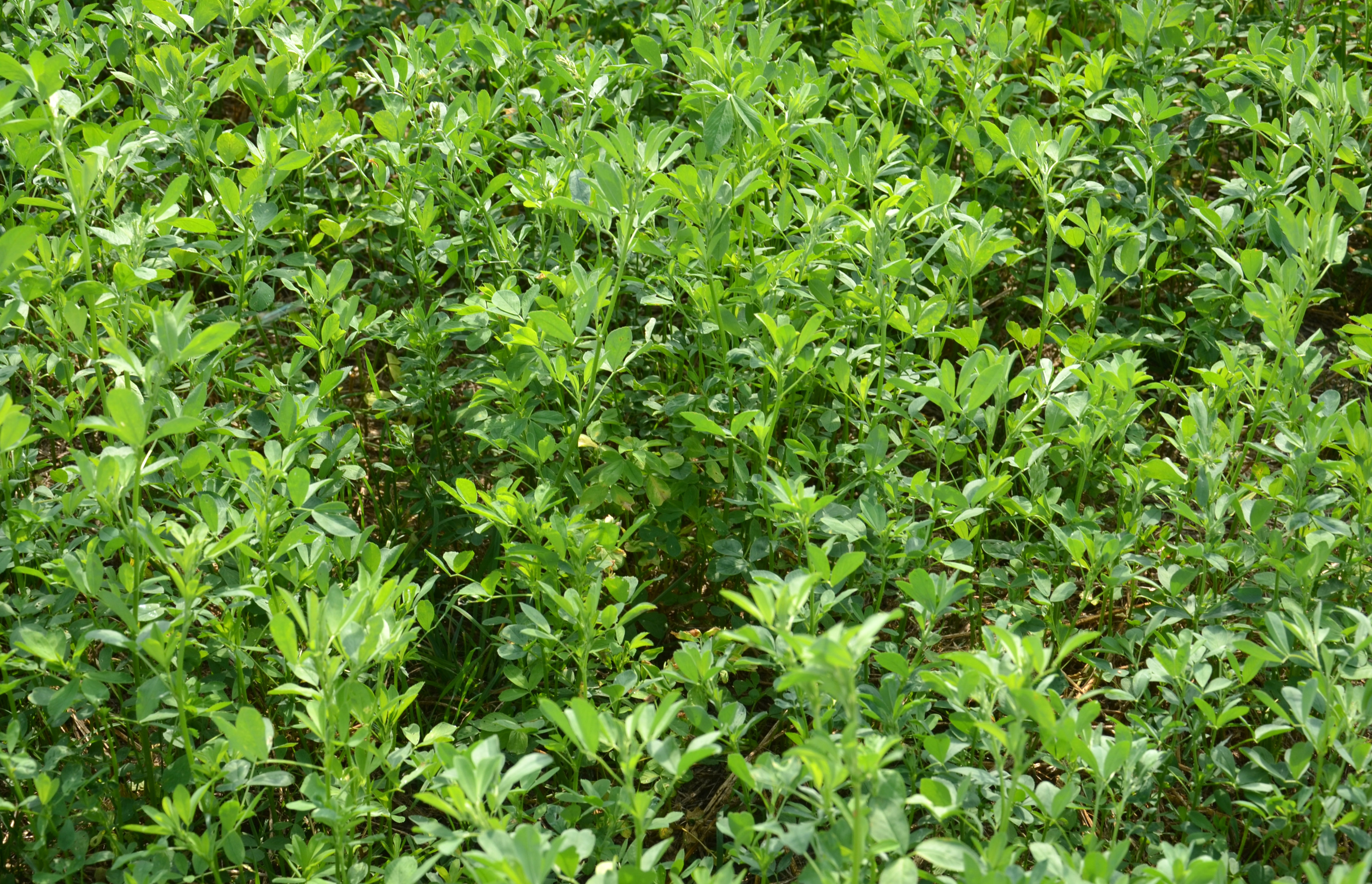 One of some experimental plots of agricultural alfalfa Medicago sativa trying to respect biodiversity better in the territory of Coopédom , (agricultural cooperative grouping in 2012 about 700 active members in a radius of 30 km around the town of Domagné, in “Ille-et-Vilaine”, Brittany (France). We distinguish a few dandelions in the plot. At the time of the photo, taken by beautiful weather (August 21, 2012 at 11:30 am) no bird or butterfly (or other flying insect) was visible in the near field of vision of the observer. These plants are intended to be dehydrated to contribute to self feed and protein for farms adhering to the cooperative. See also (in another region: [JEREMY MIRROR FRAME PROGRAM SYMBIOSE VERTE.pdf "Project Symbiosis and experimentation alfalfa"] Paper Jeremy MIRROR Moderator for Champagne Ardenne Regional Botanical Conservatory, for a conference "Agriculture, Biodiversity and Productivity: The Case of alfalfa" (12 October 2011)